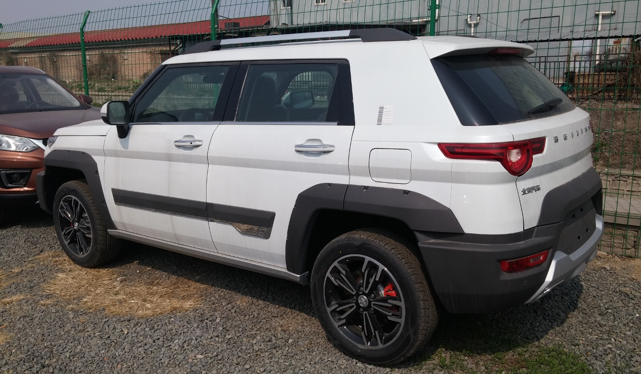 Beijing BJ20 photographed in Beijing, China.